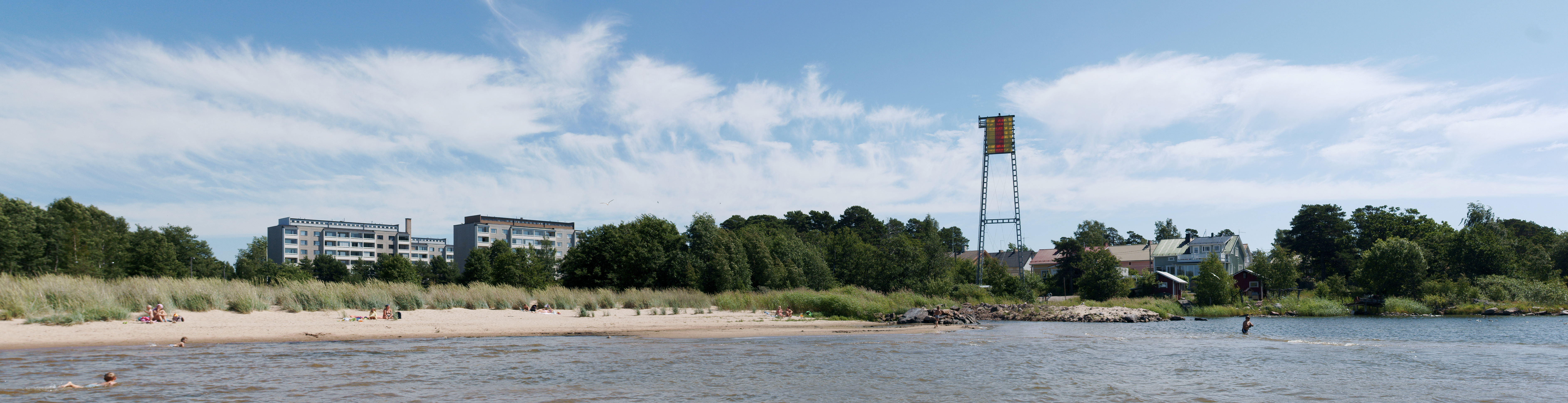 Panorama of Uniluoto.